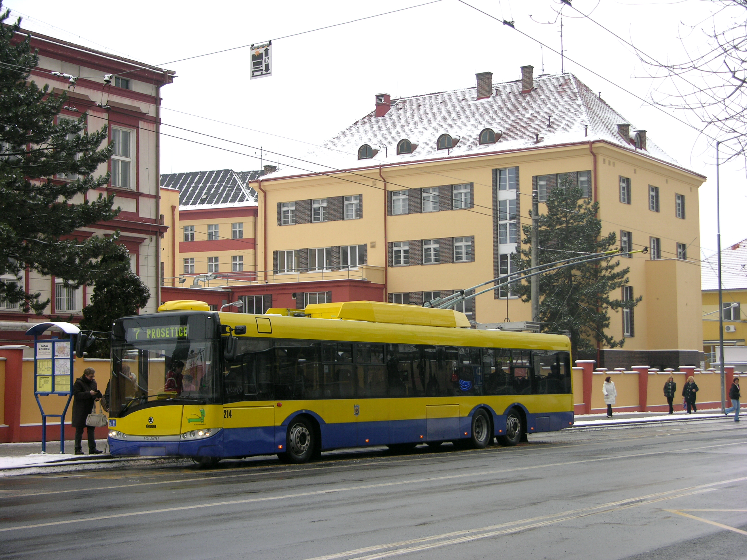 Czech Republic - Trolleybus Nr.214 Tr28 in Teplice